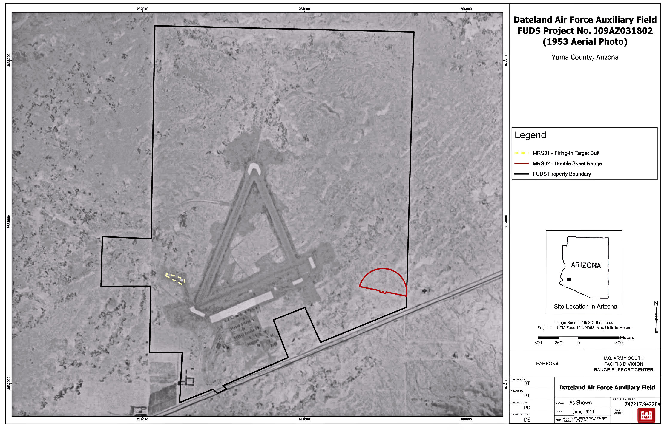 Dateland AX 1953 ACOE